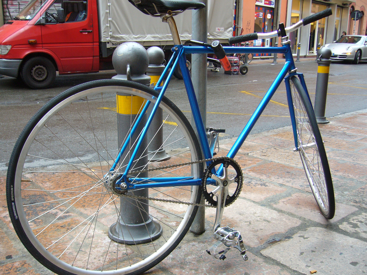 Seen in Bologna - Via delle Moline